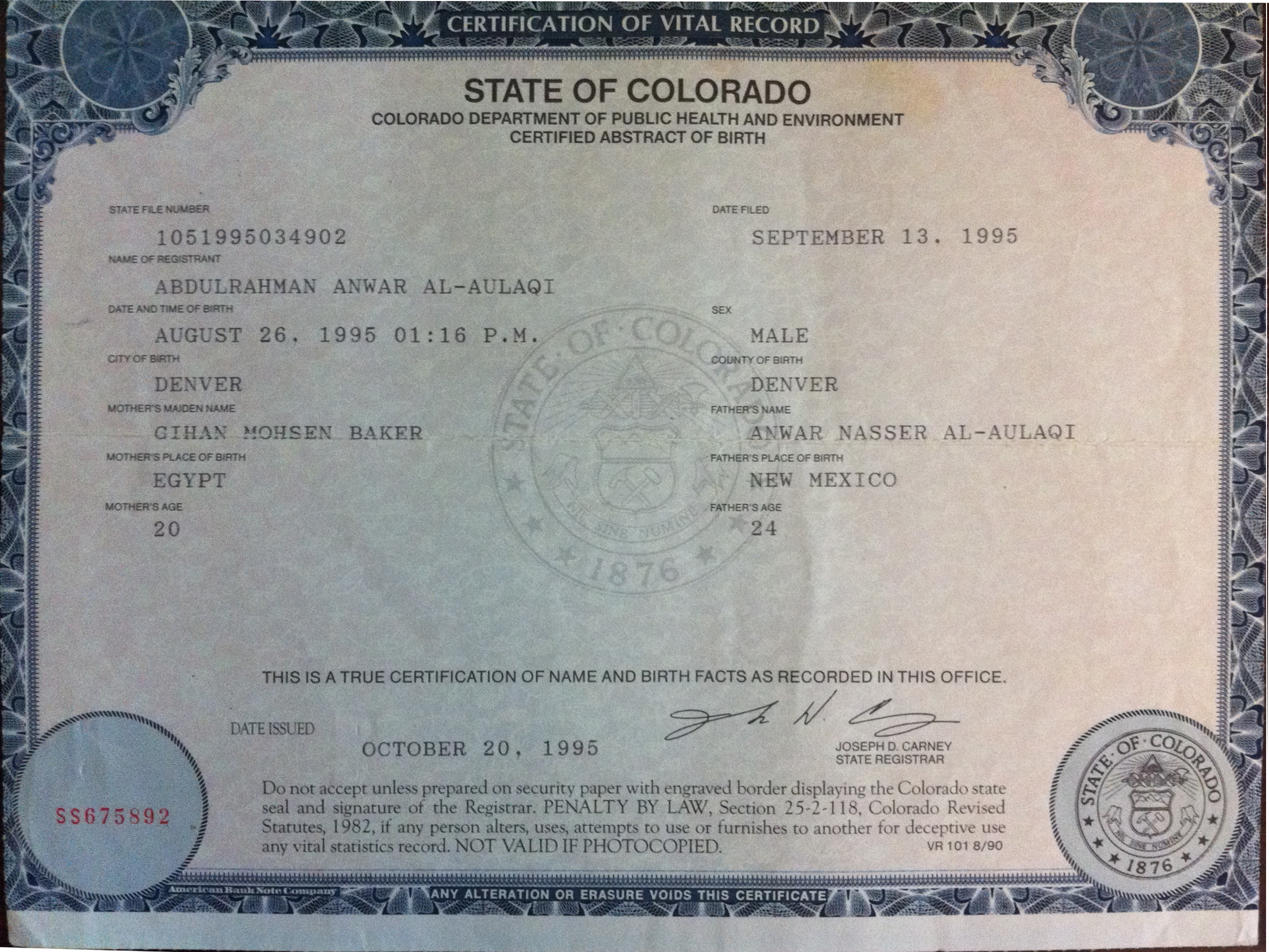 Abdulrahman al-Awlaki's birth certificate